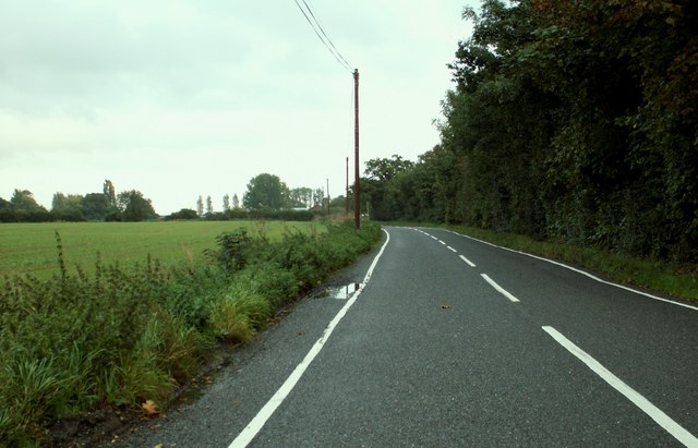 Hastingwood Road looking east